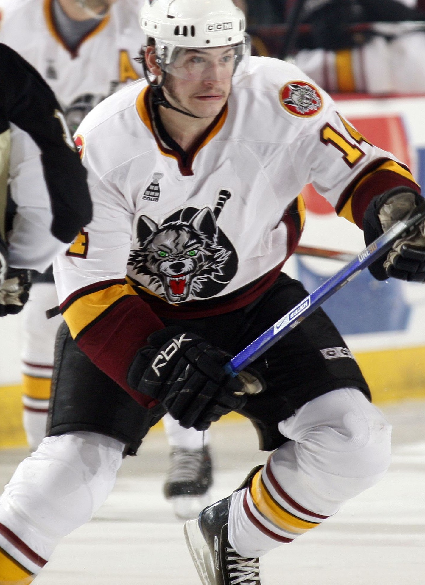 Photo: Ross Dettman